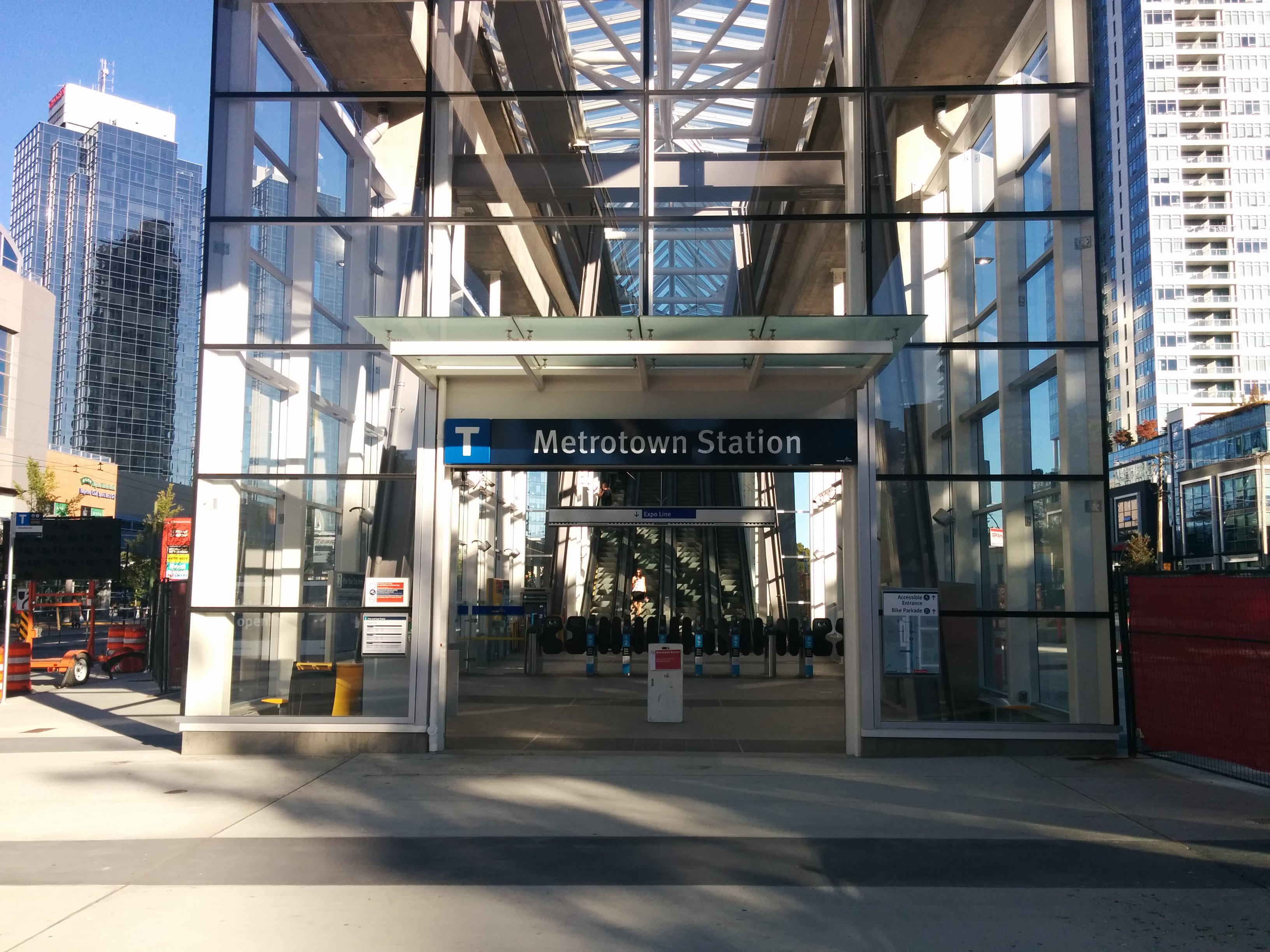 Metrotown SkyTrain station